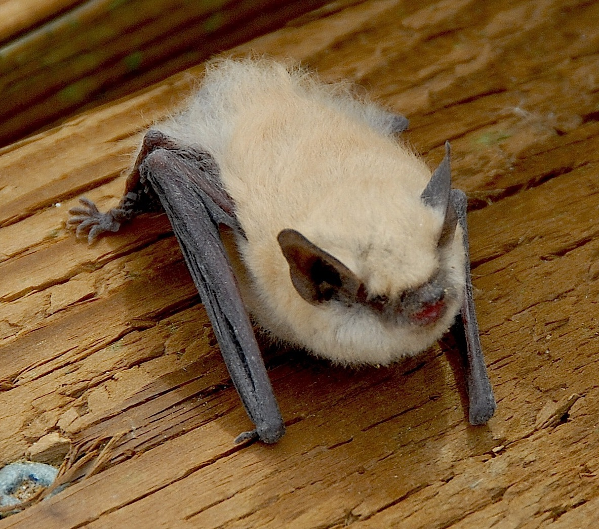 Canyon Bat